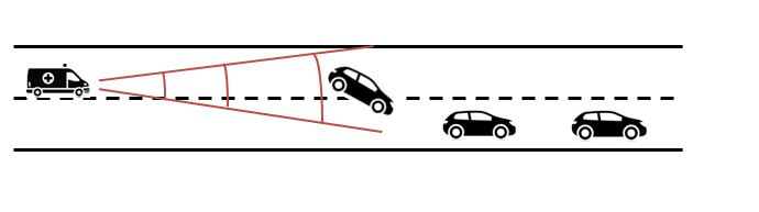 Escenario